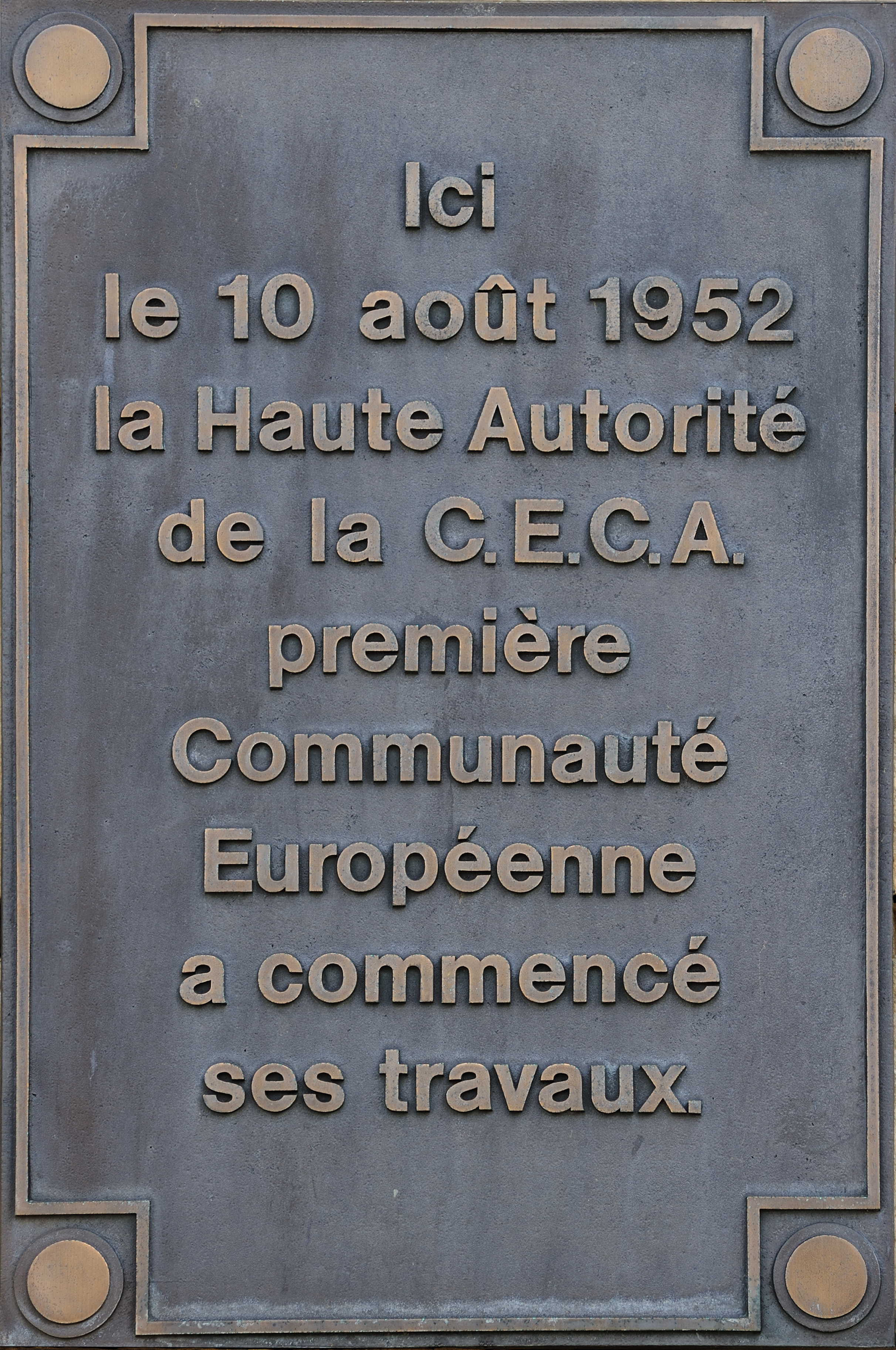 Bronze plaque on the building at 2 place de Metz in Luxembourg City commemorating the European Coal and Steel Community (1951-1992), precursor of the European Union